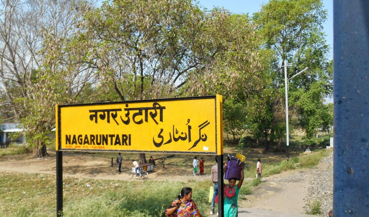 This is photo of Nagar Untari railway station